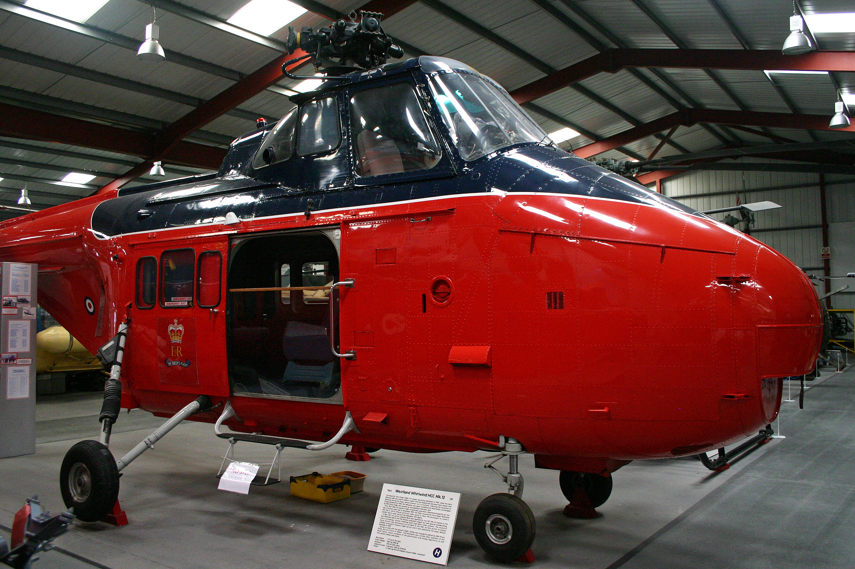 Ex RAF Queens Flight. msn WA.418. International Helicopter Museum. Weston-Super-Mare. 15-6-2011